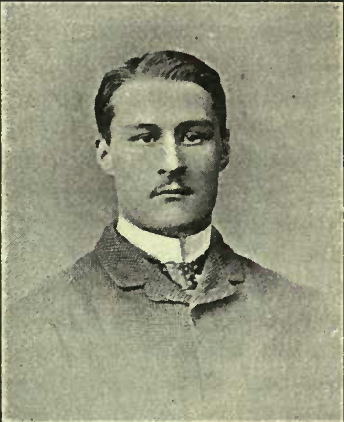 A picture of Alan Rotherham, former captain of the England rugby union team.